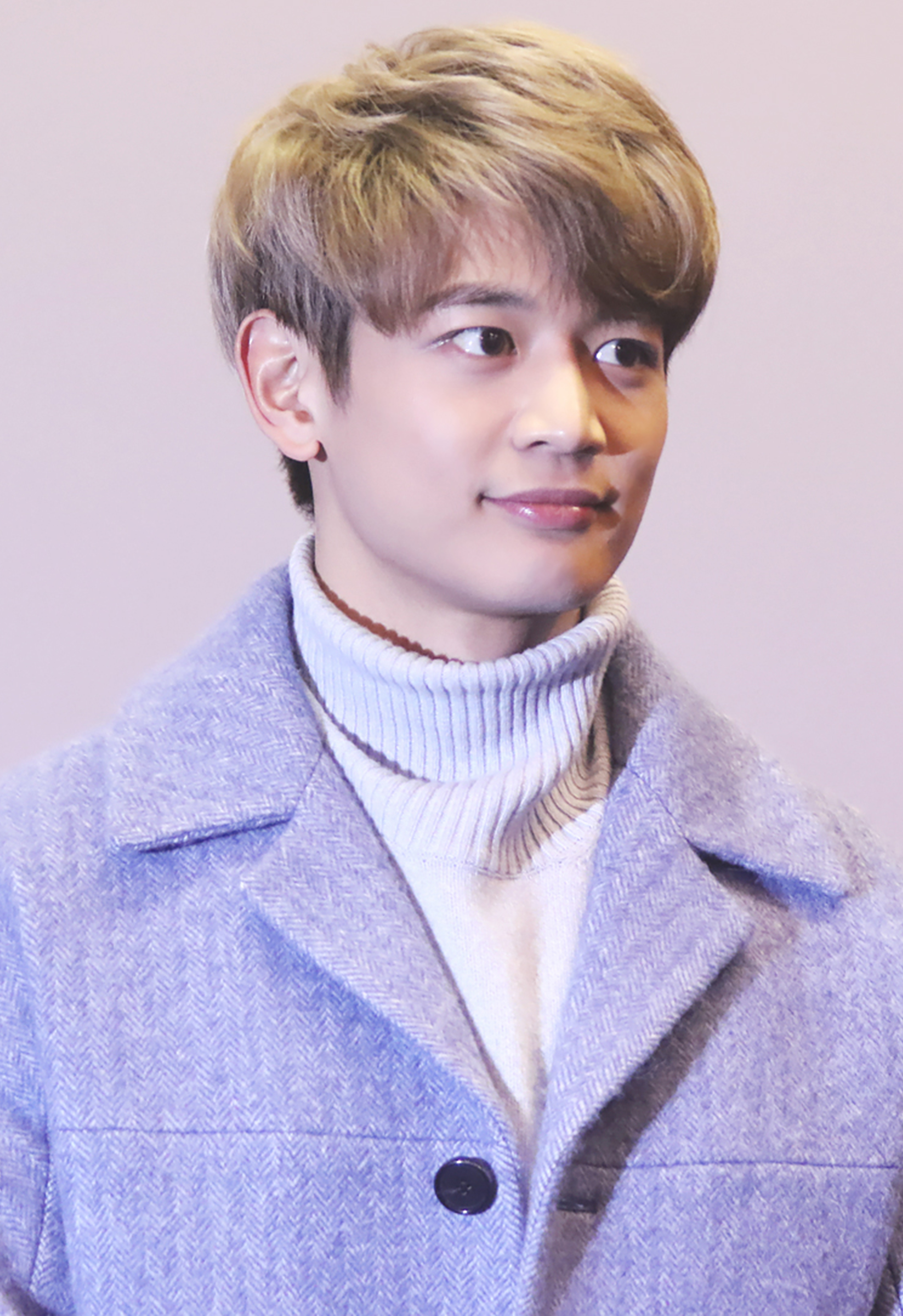 Choi Min-ho at the press conference of the movie "Derailed" at the Megabox Coex Mall in Seoul on November 29, 2016.